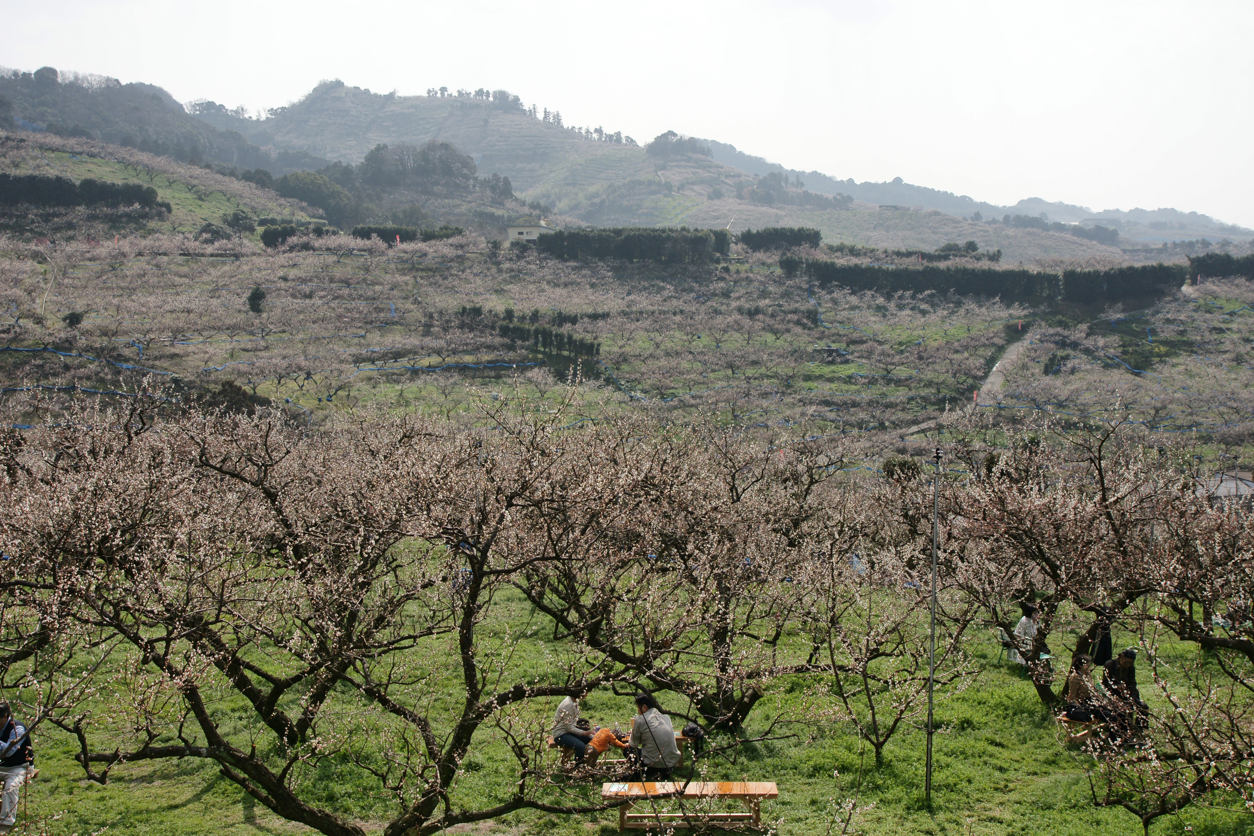 Minabe Bairin, Minabe, Wakayama prefecture, Japan